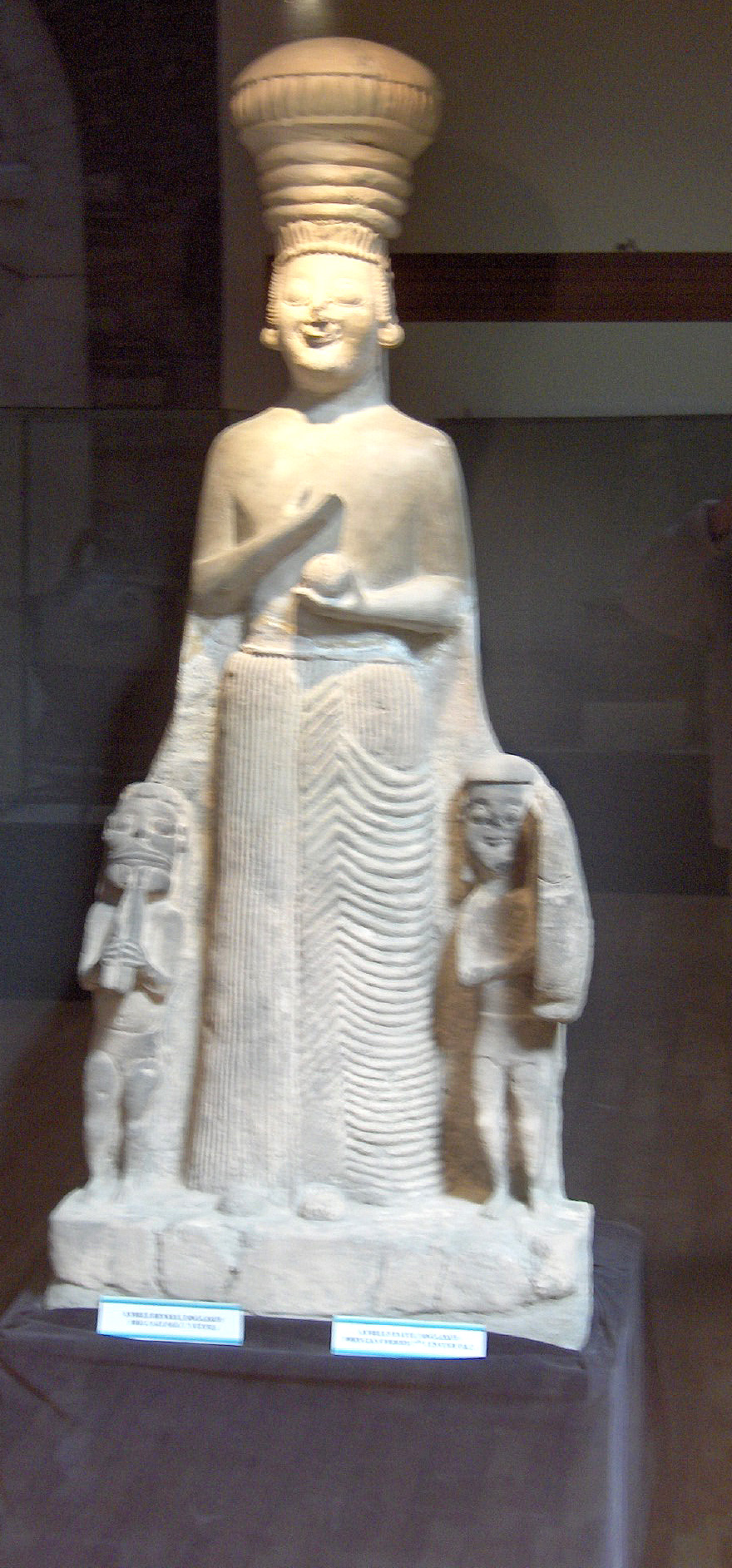 Limestone statue of the Goddess Kybele; height : 126 cm; Phrygian period; Boğazköy; mid 6th c. BC; Museum of Anatolian Civilizations, Ankara, Turkey